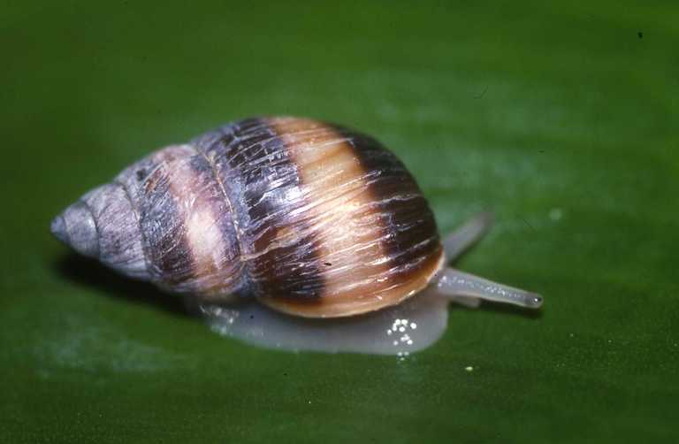 Partula suturalis in the Jersey Zoo; origin Moorea, Society Islands